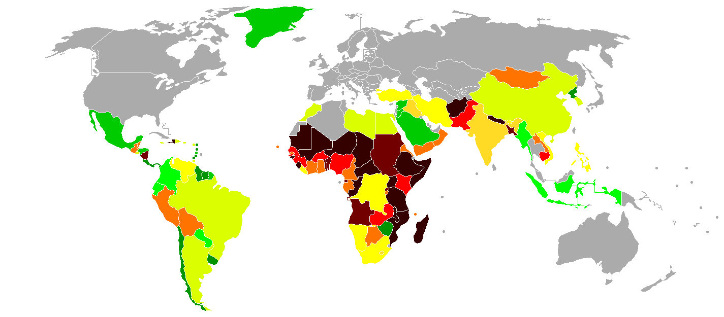 Proportion of each country's urban population living in slums (according to UN-Habitat definition).